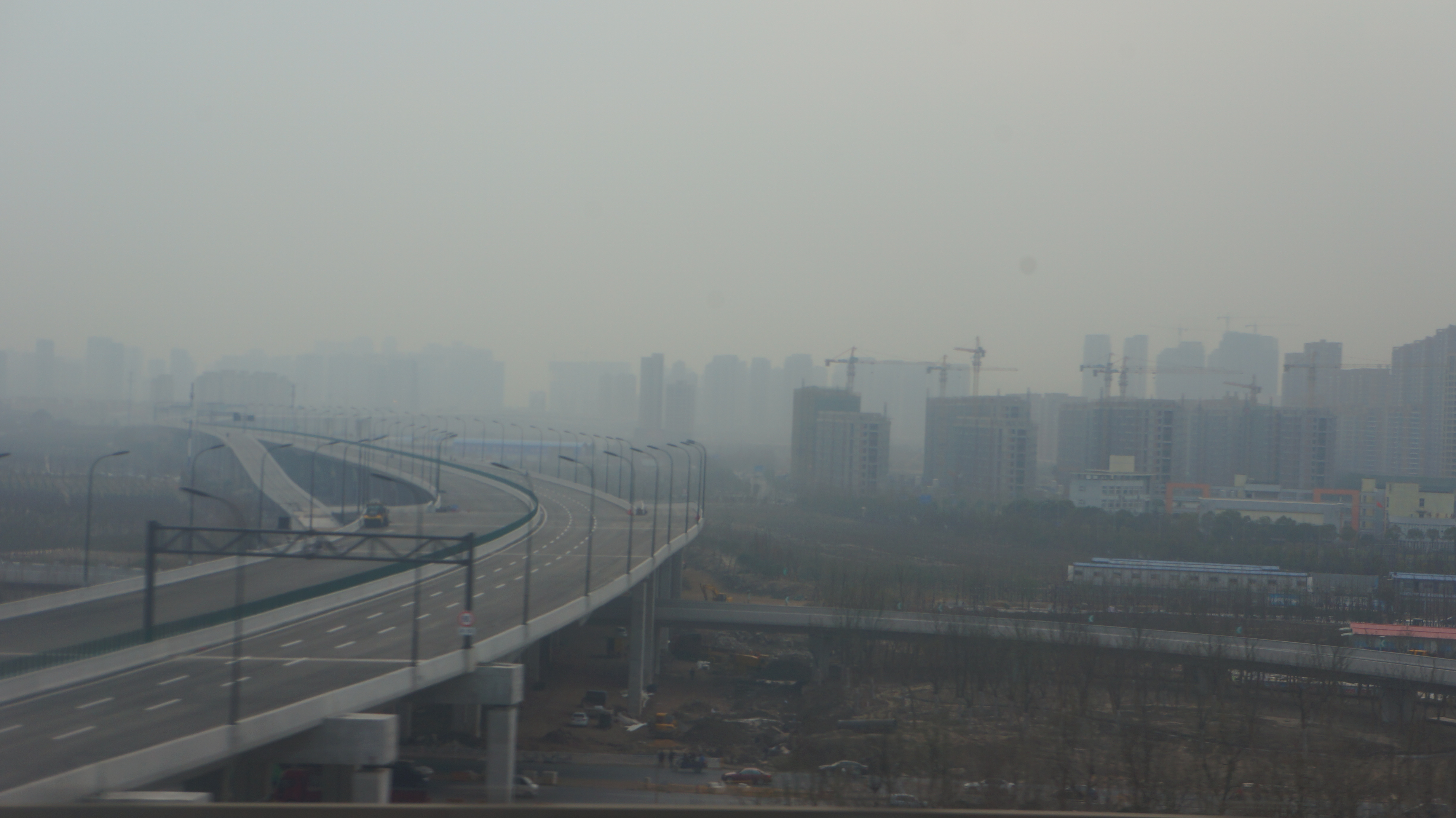 HGH Airport highway under construction